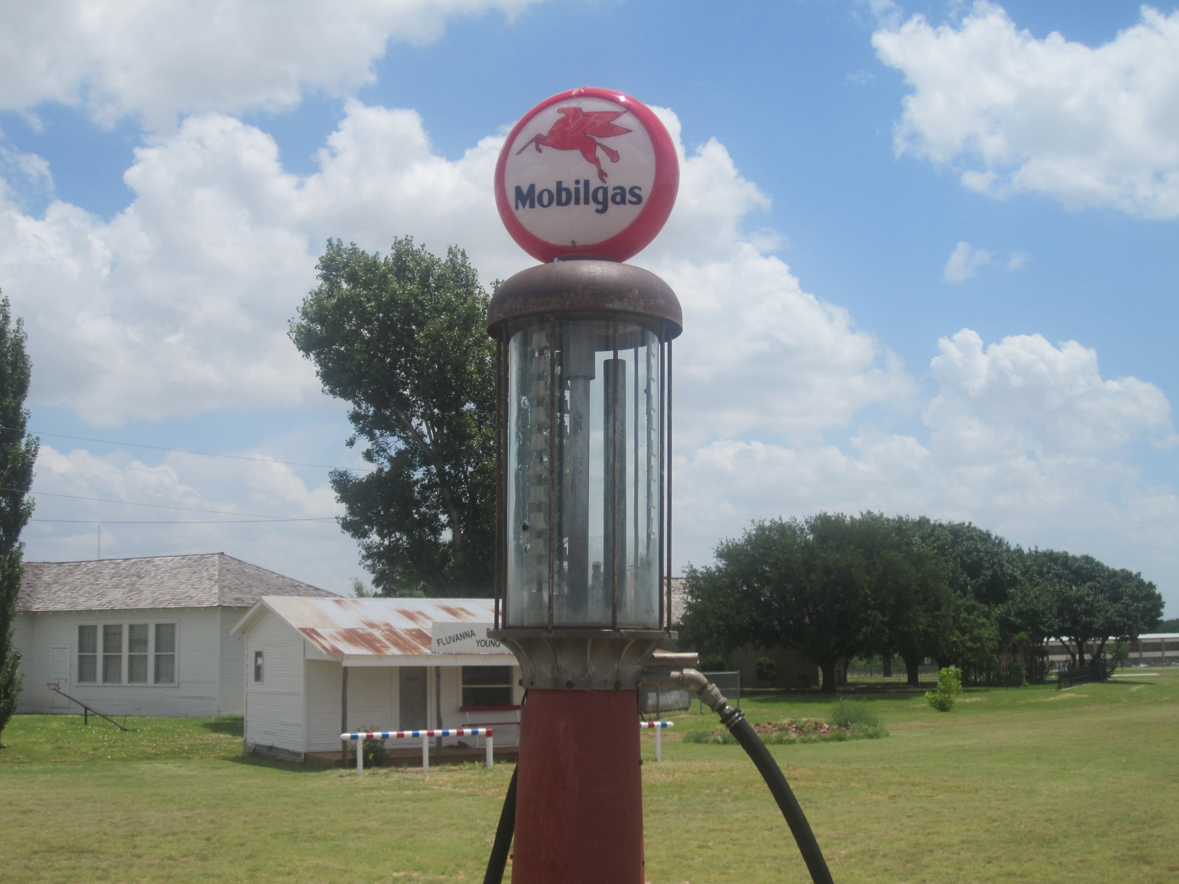 Old Mobilgas pump. I took photo with Canon camera in Snyder, TX.